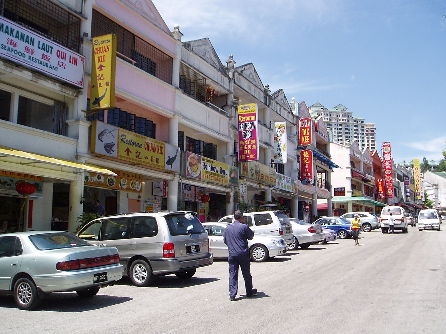 Gohtong Jaya, Genting Highlands, Bentong, Pahang, MalaysiaBahasa Melayu: Gohtong Jaya, Tanah Tinggi Genting, Bentong, Pahang, Malaysia